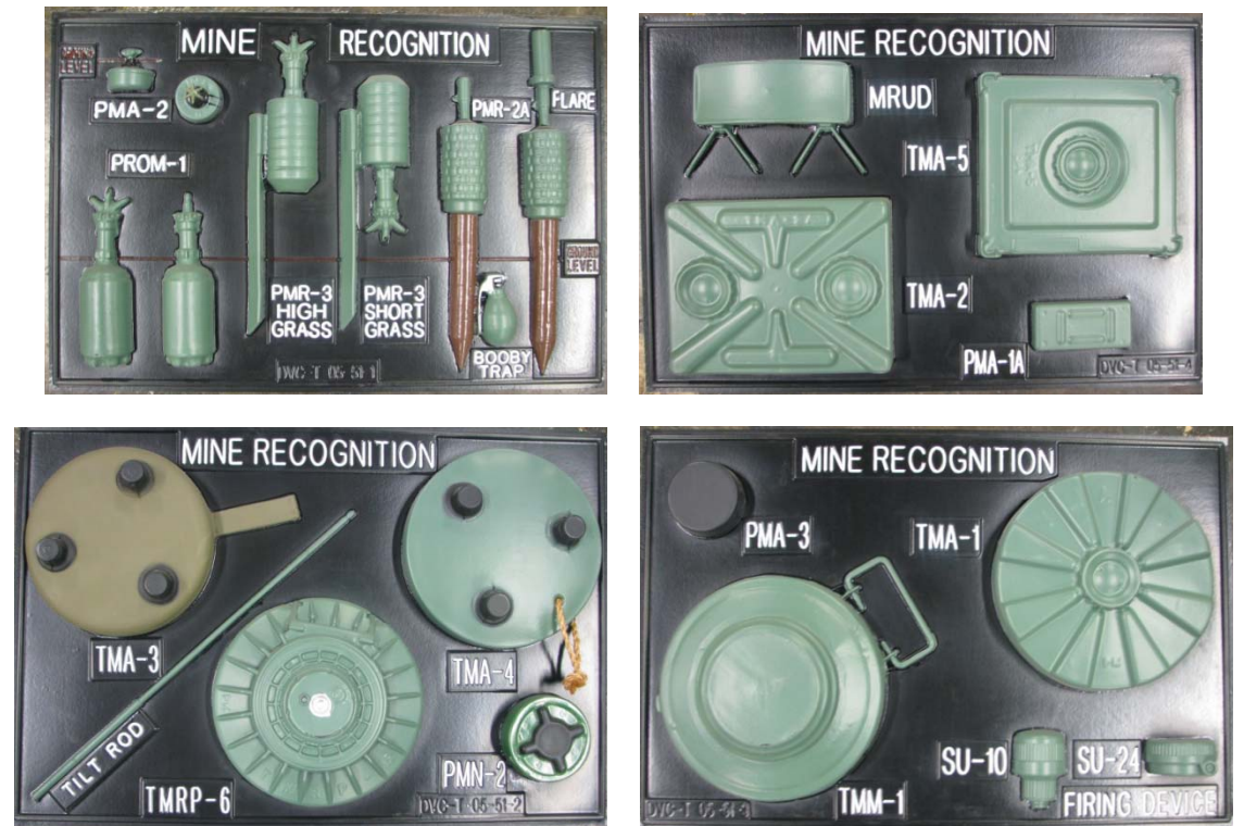 Bosnia Mine Recognition 4-board Set. The device is used for classroom and outdoor instruction on the UXO Unexploded Ordnance (AMMO) in a two–dimensional, four board set of graphic aids that show the actual dimensions of foreign country mines. These boards are used to conduct both unit and individual mine awareness training to deploying and. deployed U.S. forces in order to improve a soldier’s ability to recognize UXO hazards.